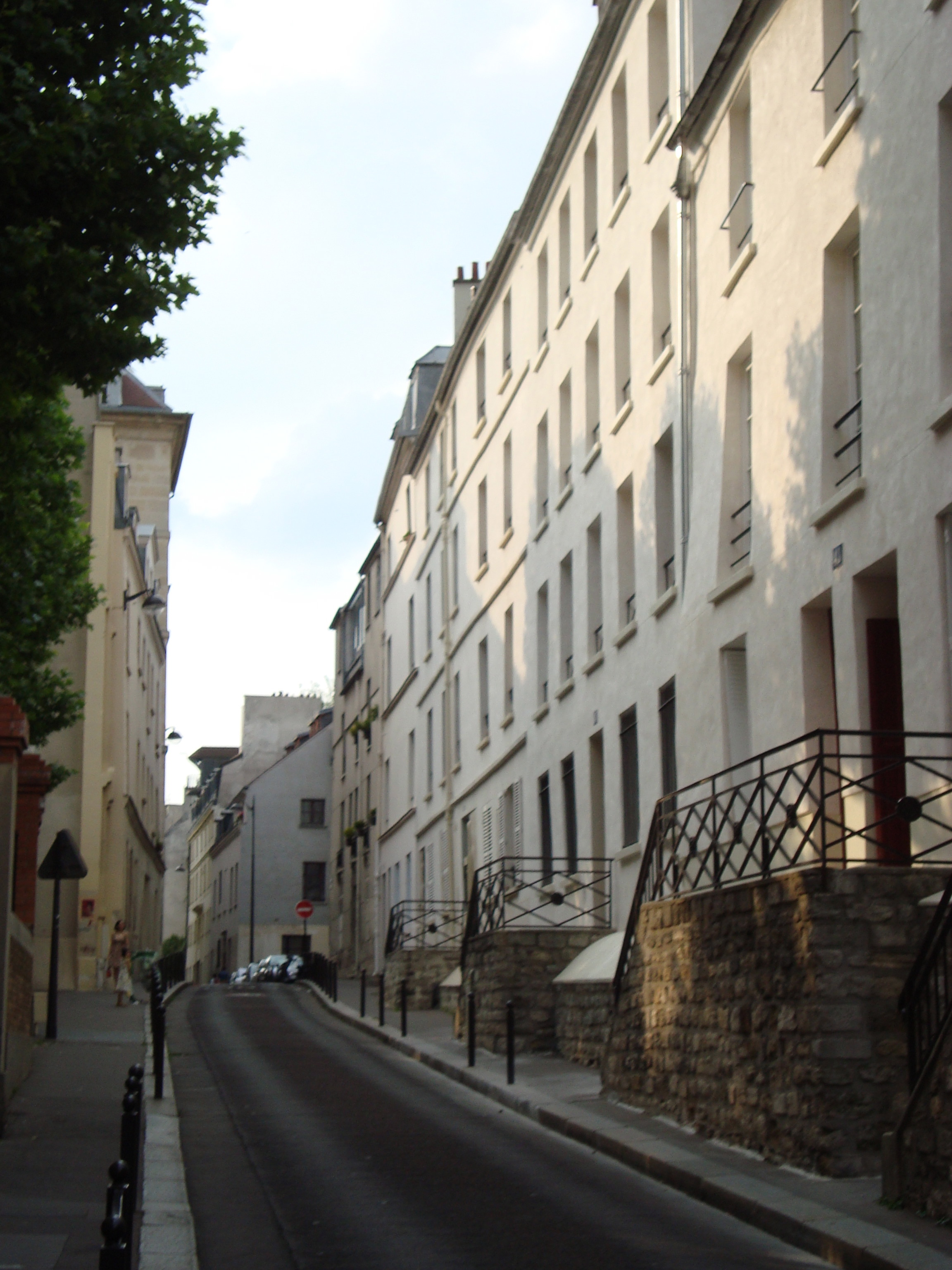 Rue Lhomond in the 5th arrondissement of Paris